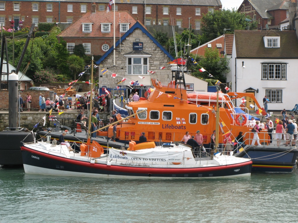 Oniros is a former Watson Class lifeboat. Then known as Samuel and Marie Parkhouse, it was stationed at Salcombe from 1938 until 1962. It is moored with modern RNLB William and Mary in front of Weymouth Lifeboat Station.